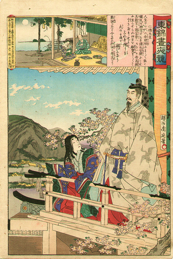 Emperor Nintoku - "Azuma Nishiki Chūya Kurabe" (Edo Embroidery Pictures, Comparison of Day and Night). Woodblock print by Toyohara Chikanobu (1838-1912) and published by Kobayashi Tetsujiro, depicting Emperor Nintoku (313 - 399 A.D) observing his people.